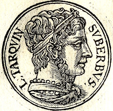 Tarquinius Superbus was the seventh King of Rome, reigning from 535 until the Roman revolt in 509 B.C.